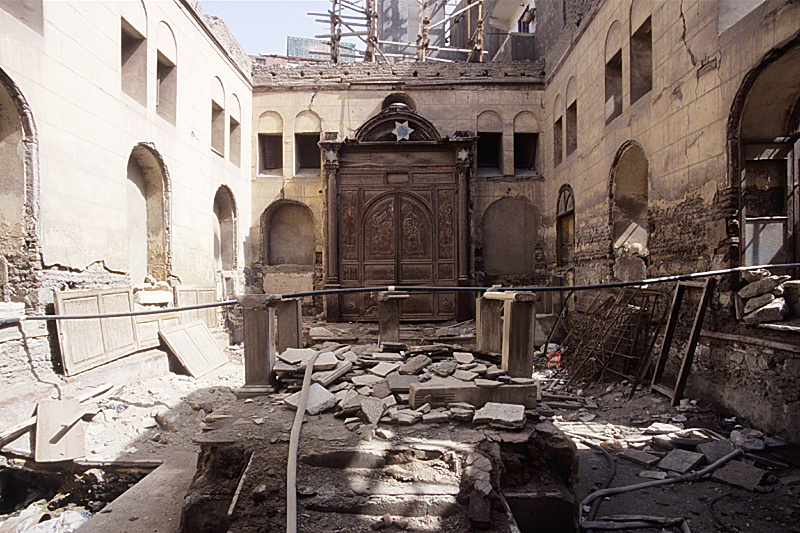 Inside the synagogue of Moses Maimonides (Moses ben-Maimon) before its renovation in 2010, Jewish quarter, el-Muski, Cairo, Egypt